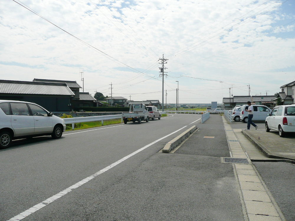 Ekaku Station plaza, Aichi Loop Line.